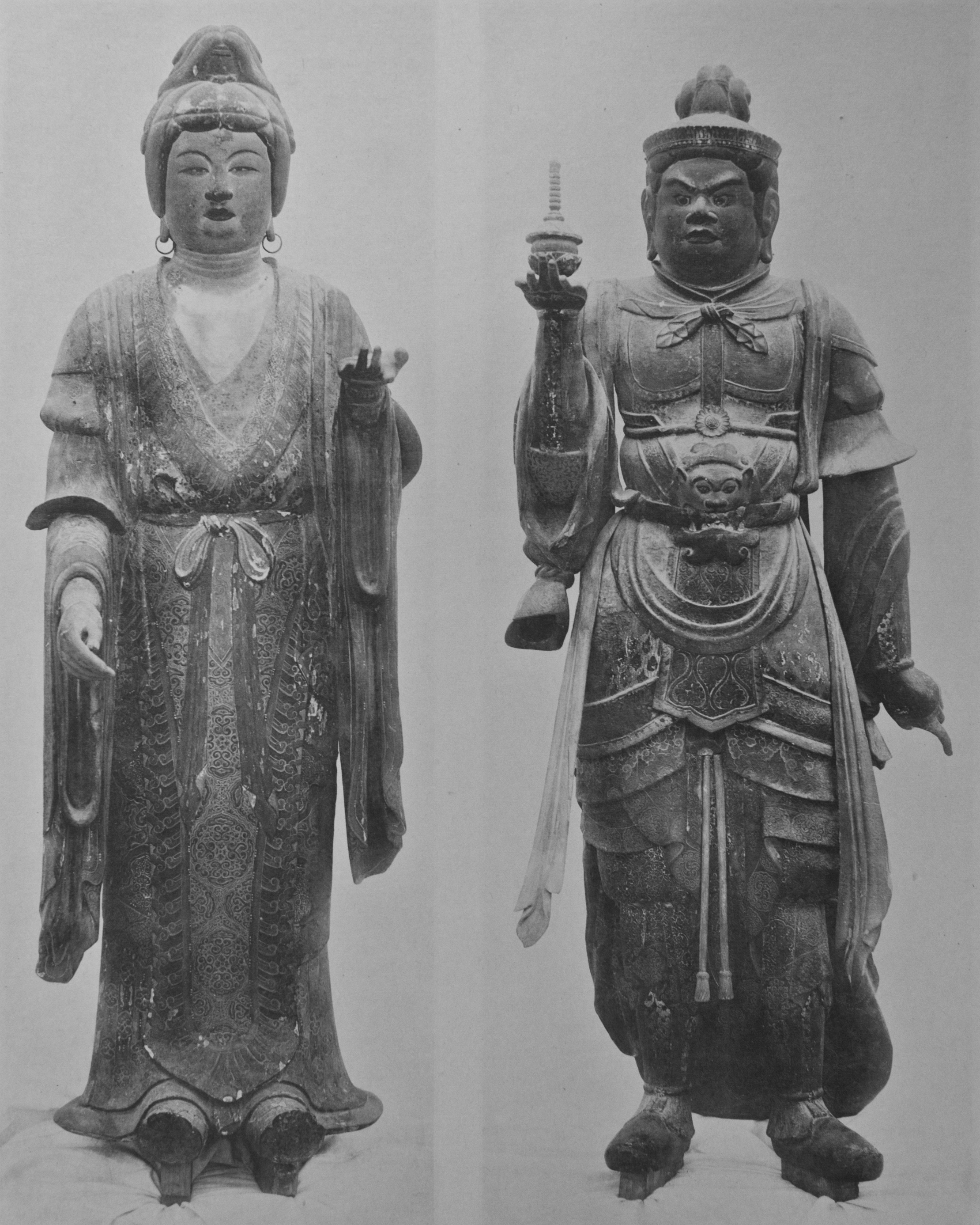 Kondo, Horyuji, Nara, Japan